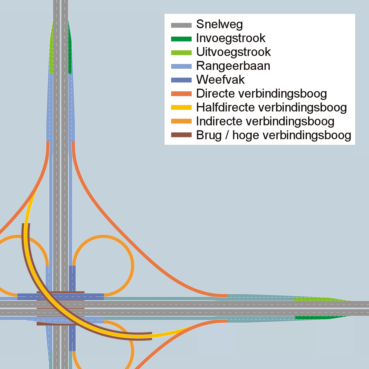 Components of a Traffic Junction